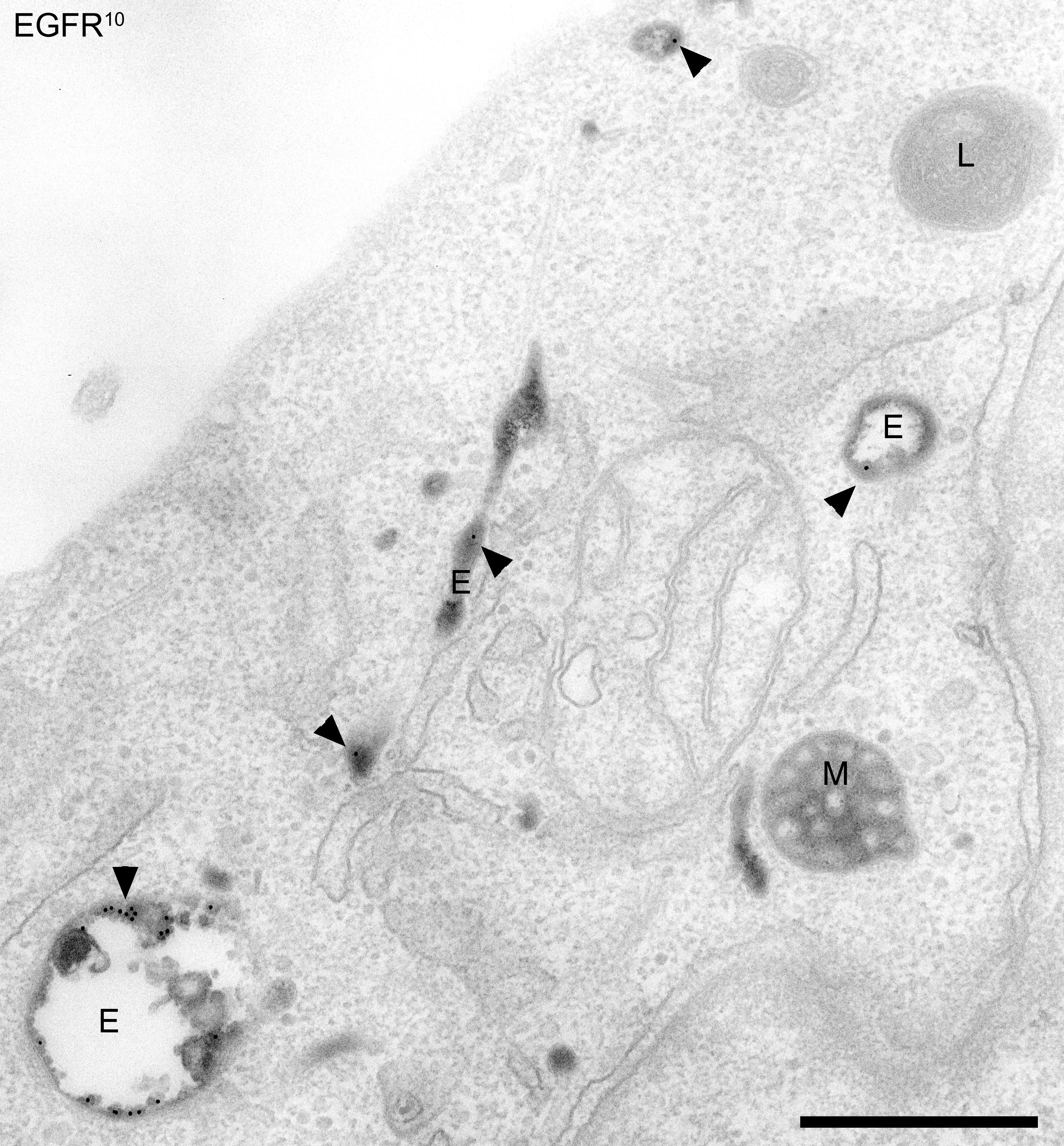 Compartments of the endocytic pathway in HeLa cells. Early endosomes (E), late endosomes/MVBs (M), and lysosomes (L) are visible. Epidermal growth factor receptors (EGFR) and transferrin (Tf) are labelled in the early endosomes. Epidermal growth factor receptors are labelled with an antibody conjugated to 10 nm gold, applied to the cell surface. The cells were stimulated with EGF and allowed to internalize the receptors, bringing the gold with them. The image was taken 5 minutes after internalization, at which point most of the EGFR-gold has reached early endosomes (black dots, marked by arrowheads), but has not yet entered late endosomes or lysosomes. The cells are also loaded with transferrin conjugated to horseradish peroxidase (TfHRP). The HRP catalyses a reaction in the presence of DAB that produces a dark stain in the transferrin containing compartments in the image. HeLa cells were preincubated for 1 h in serum-free medium. For the final 30 minutes the cells were incubated with TfHRP. The cells were then incubated with EGF and anti-EGFR 10 nm gold-conjugated antibody for 30 minutes at 4°C, washed, and incubated at 37°C for a further 5 minutes, all in the presence of TfHRP. Arrowheads; anti-EGFR 10 nm gold. Dark content; cross linked TfHRP. Bar, 500 nm. Philips EM400 TEM Methods for cell fixation and preparation for electron microscopy can be found in the reference below. Briefly, cells were room temperature fixed, a DAB reaction was done, and the cells were osmium stained, dehydrated and embedded en face in epon. Related reference; Doyotte, A., Russell, M.R.G., Hopkins, C.R., Woodman, P.G. (2005) Depletion of TSG101 forms a mammalian ‘‘Class E’’ compartment: a multicisternal early endosome with multiple sorting defects. J. Cell Sci, 118:3003-3017.